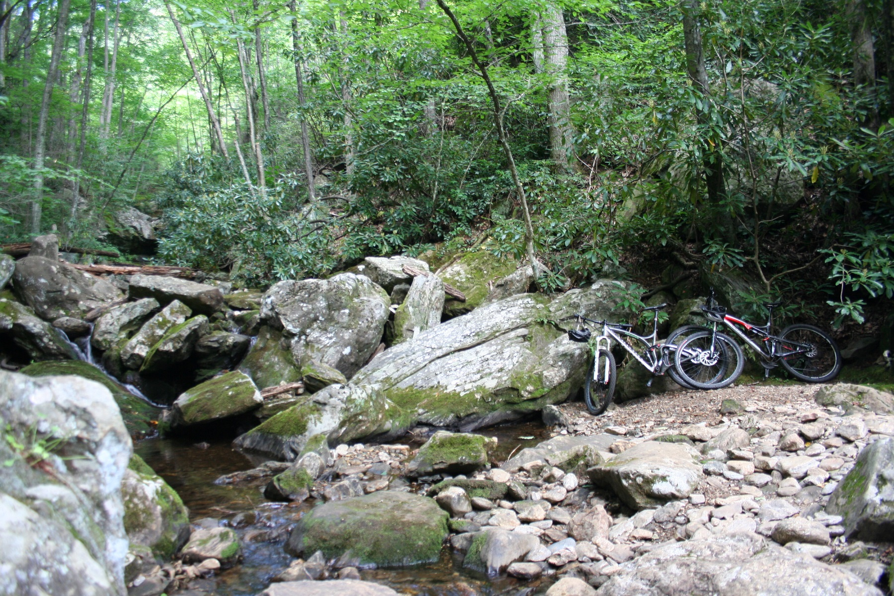 Farlow Gap trail at a creek crossing. The trail is unimproved, so hikers and mountain bikers find their own stones to use to cross the creek.